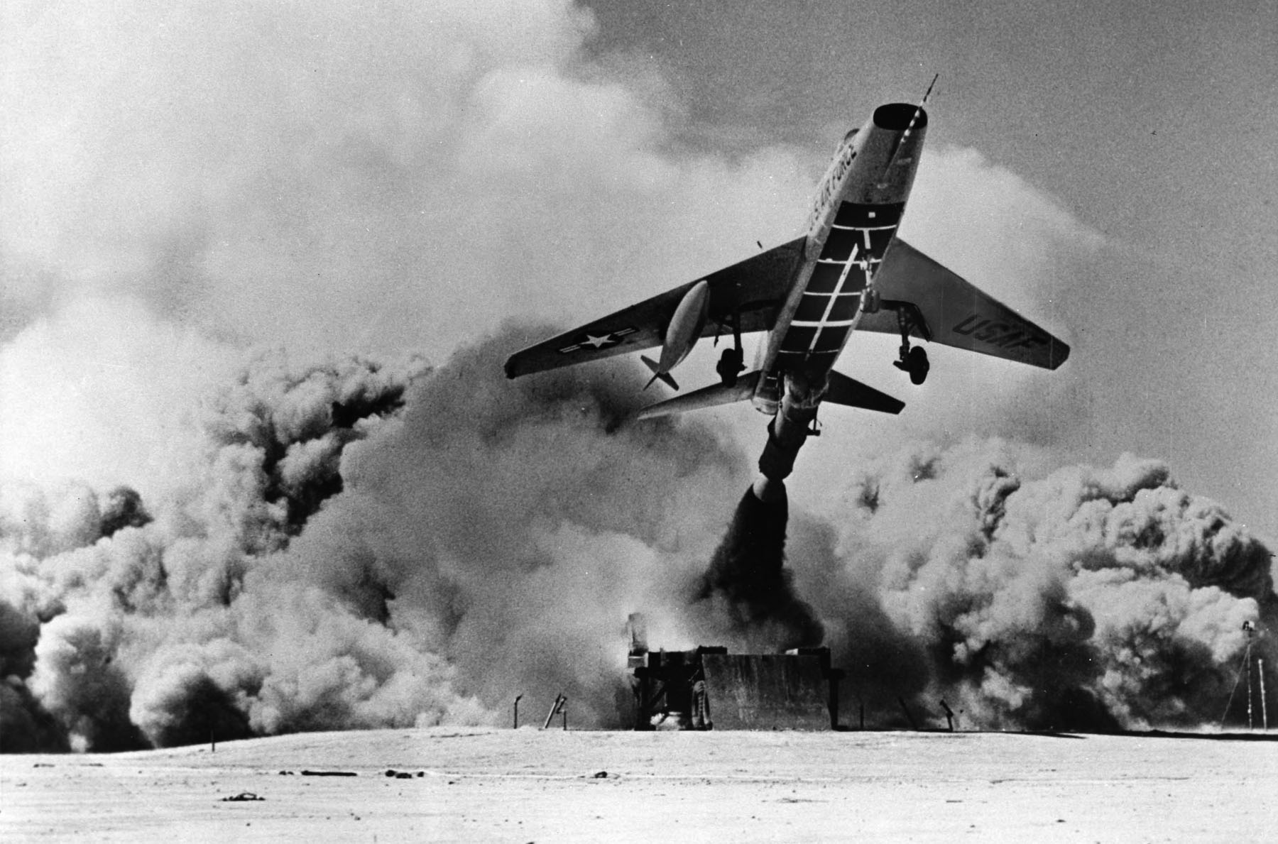 Zero-Length Launch of U.S. Air Force North American F-100D-60-NA Super Sabre (S/N 56-2904) with Maj. R. Titus as pilot. Note the dummy nuclear weapon on the right wing has been retouched out of the photograph.